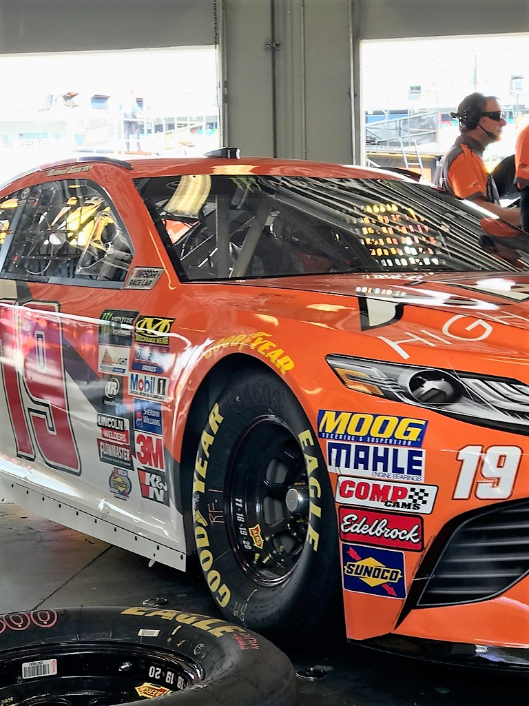 Daniel Suárez in the garages at Daytona International Speedway